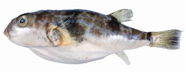 A Reicheltia halsteadi specimen